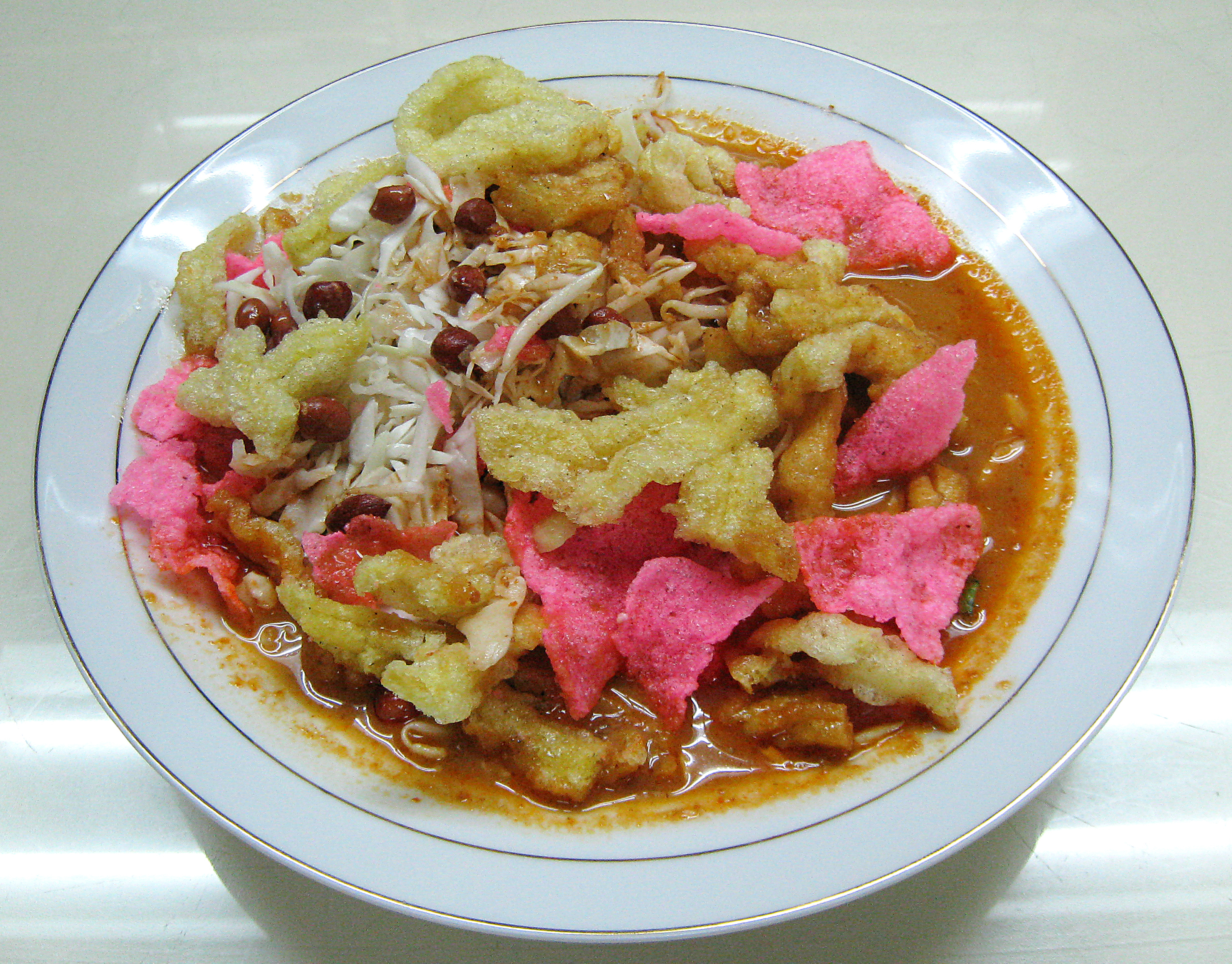 Asinan Betawi Jalan Kamboja, one of the famous Asinan in Jakarta. Asinan (lit: salted things) is some kind of vegetable salads. Betawi variant uses spicy peanut sauce and employ vegetables, peanuts, and kerupuk crackers.